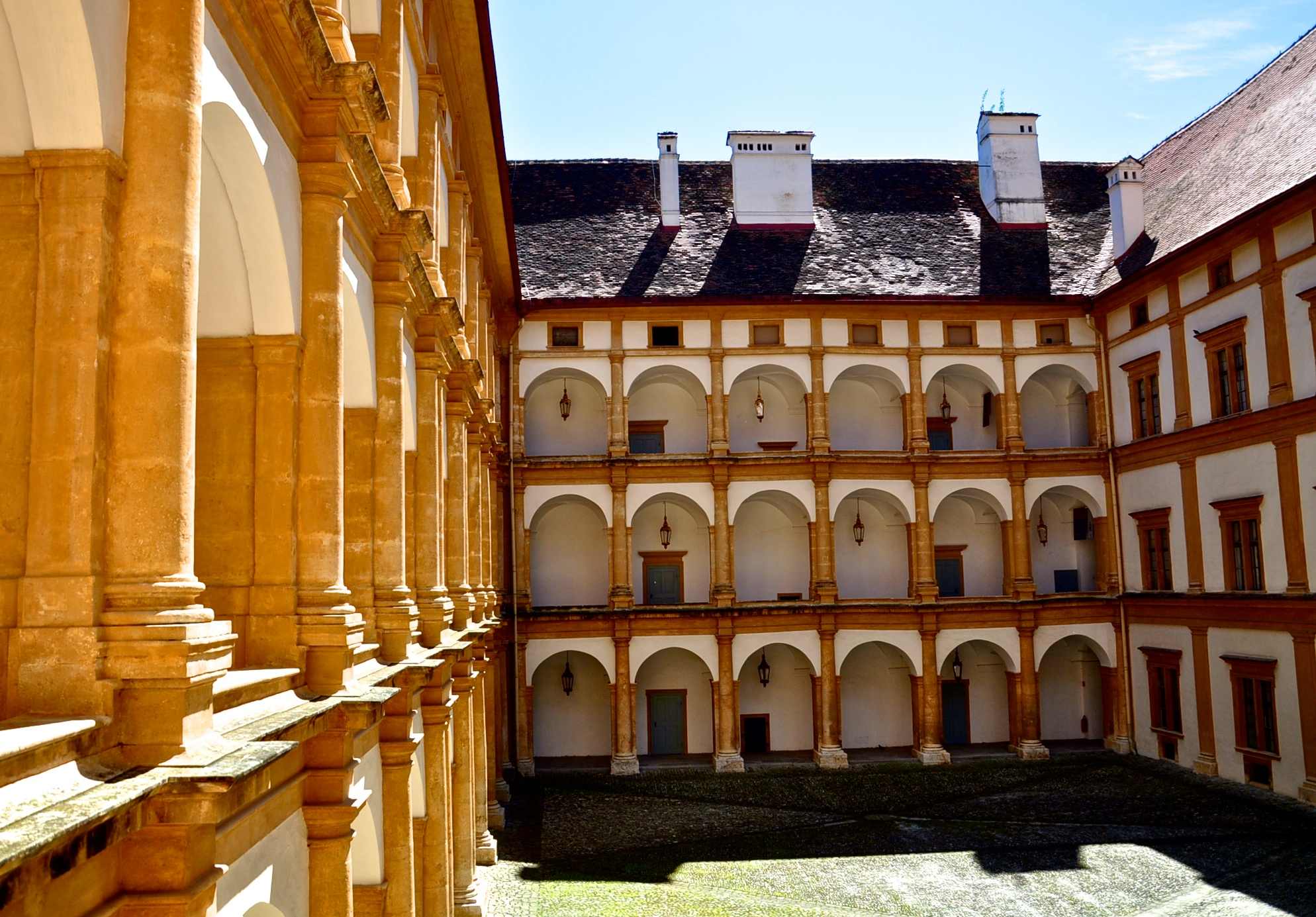 Graz – Schloss Eggenberg. Vom Schloss im Schloss – die Illusion vom perfekten Neubau Dieses Bild wurde anlässlich des österreichischen Tags des Denkmals 2014 in der Steiermark eingereicht.